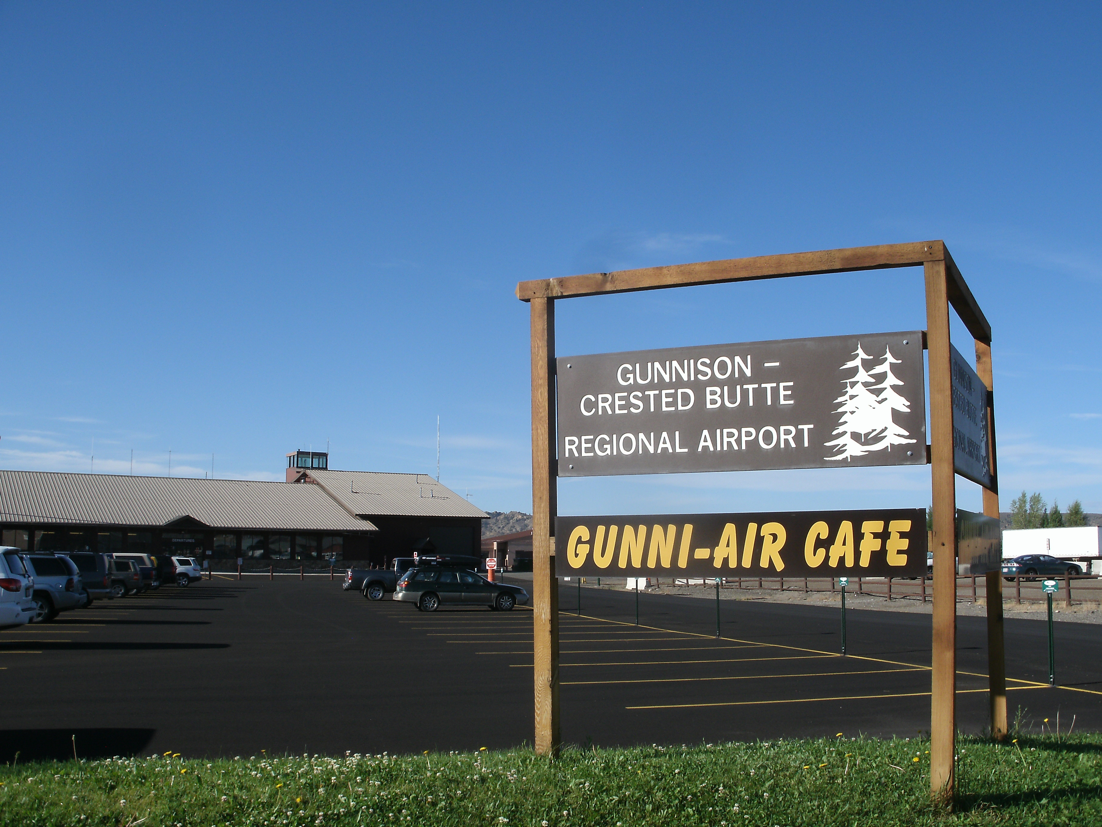 Photo of Gunnison-Crested Butte Regional Airport with sign in front and control tower behind building.